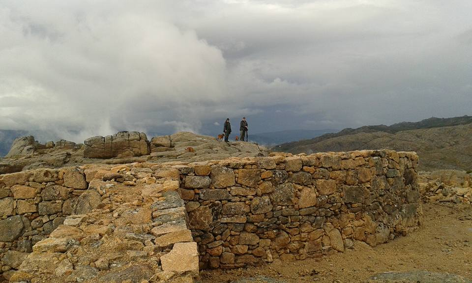 This is an image of the Biosphere Reserve or a Geopark: Geres/Xures Transboundary Biosphere Reserve (Portugal/Spain)